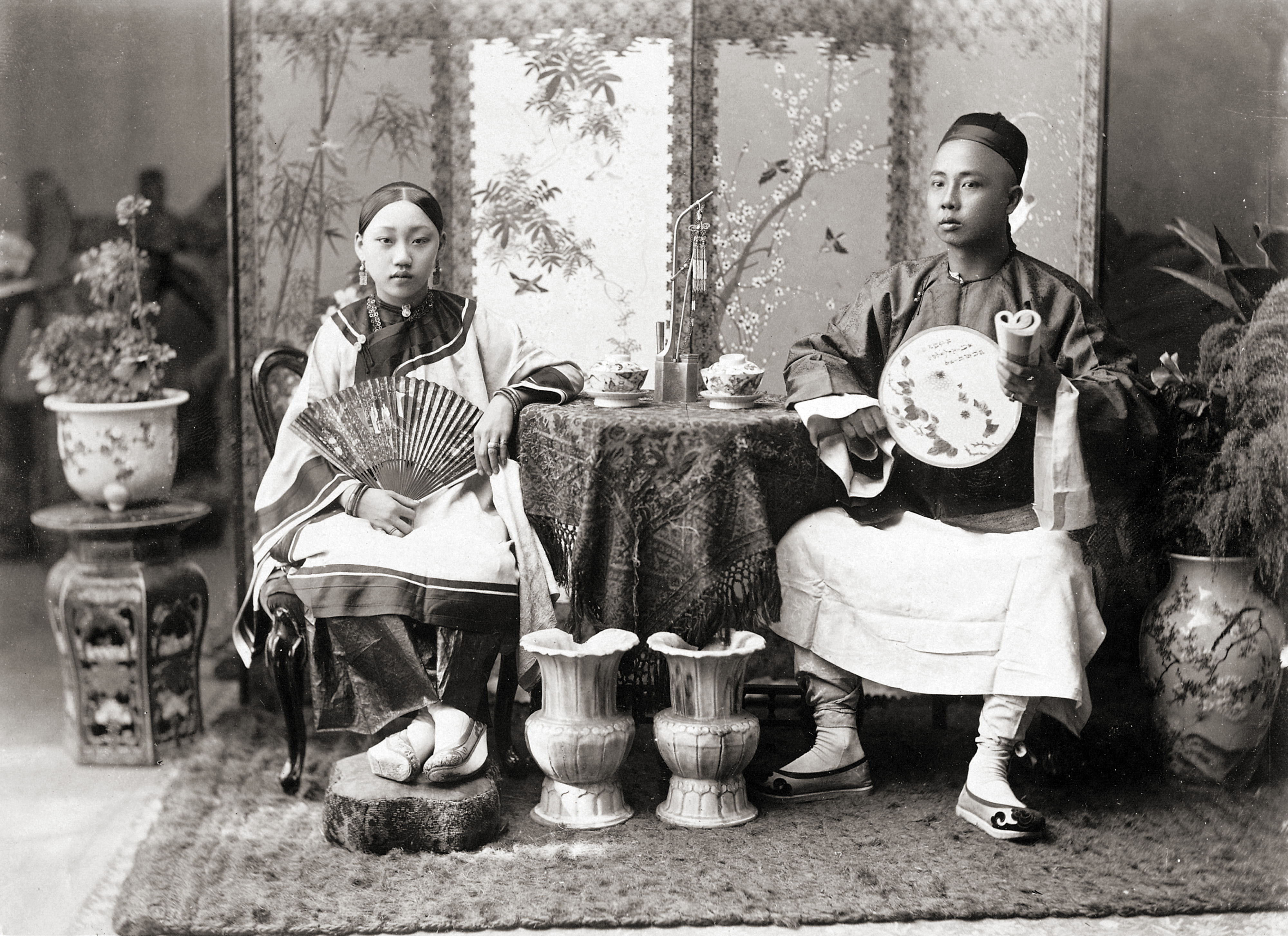 Photograph from the Curzon Collection, of a Chinese merchant and his wife in Burma (Myanmar), taken by Watts and Skeen in the 1890s. This is a full-length studio portrait of the couple, who are seated in traditional costume at either side of a table on which rests an opium pipe. Chinese communities had existed for many centuries in rural Burma and were largely formed by migrants travelling overland from China into Burma along the north-eastern trade routes and rivers. The urban Chinese population of cities such as Rangoon (Yangon) originated largely during the colonial era when Chinese from the coastal provinces of China came by sea to work as merchants, among other professions. This photograph was most probably taken in Rangoon as it was the location of the firm’s studio. In 1891 the Imperial Gazetteer of India estimated the Chinese colony in Rangoon as approximately 8000 people, and this had increased to more than 11,000 by 1901.